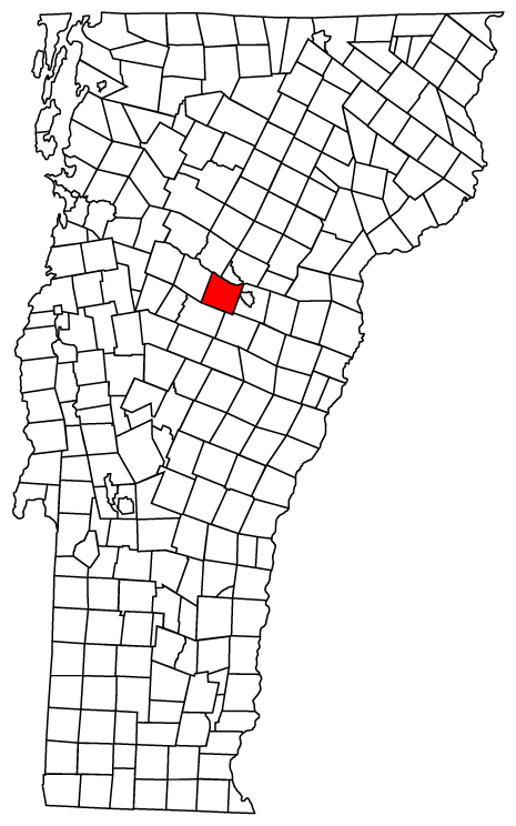 Description: Map of Vermont towns with Berlin highlighted Source: Map created by Jared C. Benedict on 26 March 2004. Copyright: � Jared C. Benedict. 12:08, 27 March 2004 Redjar 465x744 (35755 bytes) (Vermont town map with town highlight)